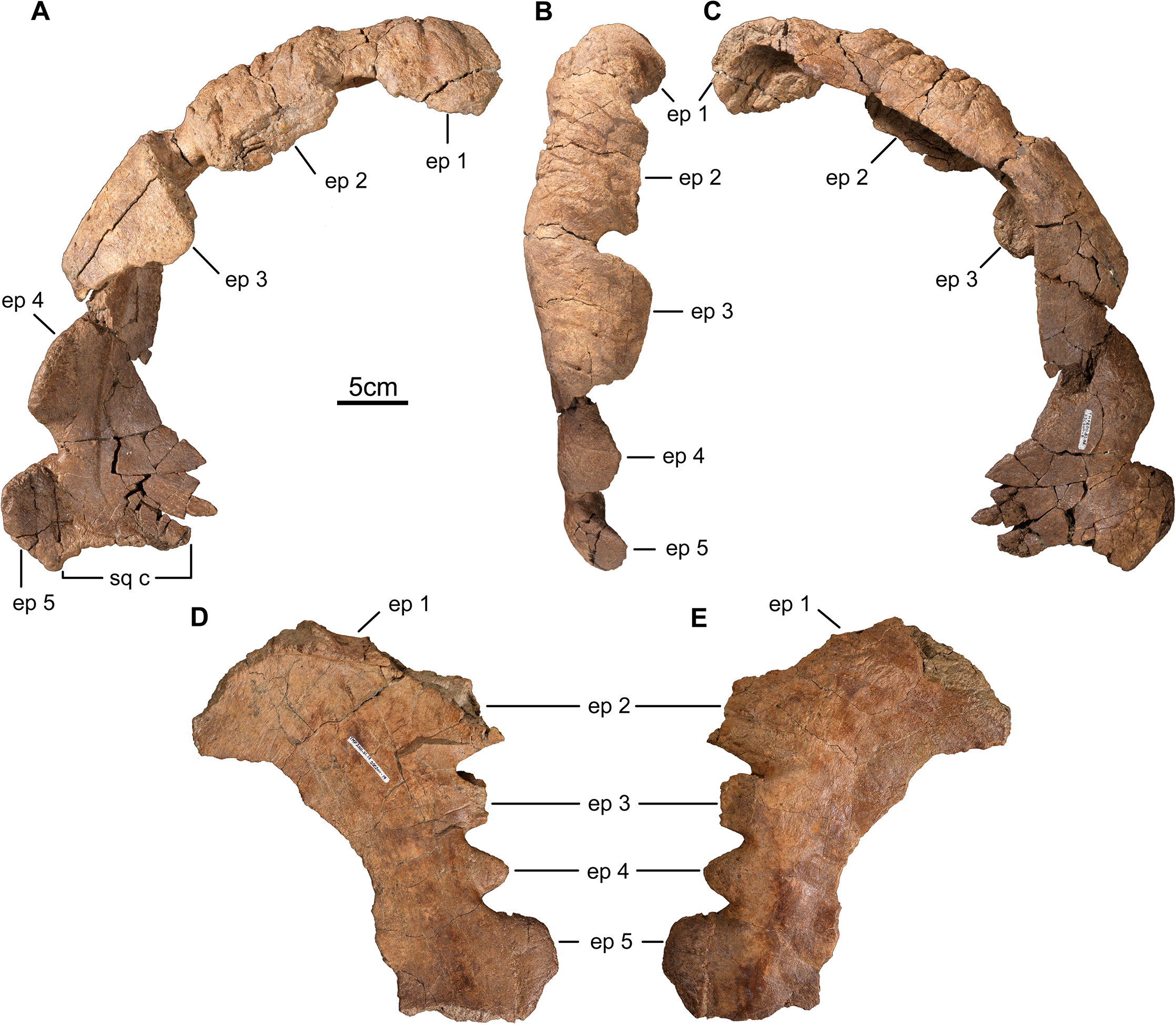 Parietal of Wendiceratops pinhornensis gen. et sp. nov. TMP2011.051.0009 (holotype) right parietal ramus in A) dorsal, B) lateral, and C) ventral views. TMP2011.051.0019, subadult left parietal ramus, in D) dorsal and E) ventral views. Abbreviations: ep, epiparietal; sq c, squamosal contact.